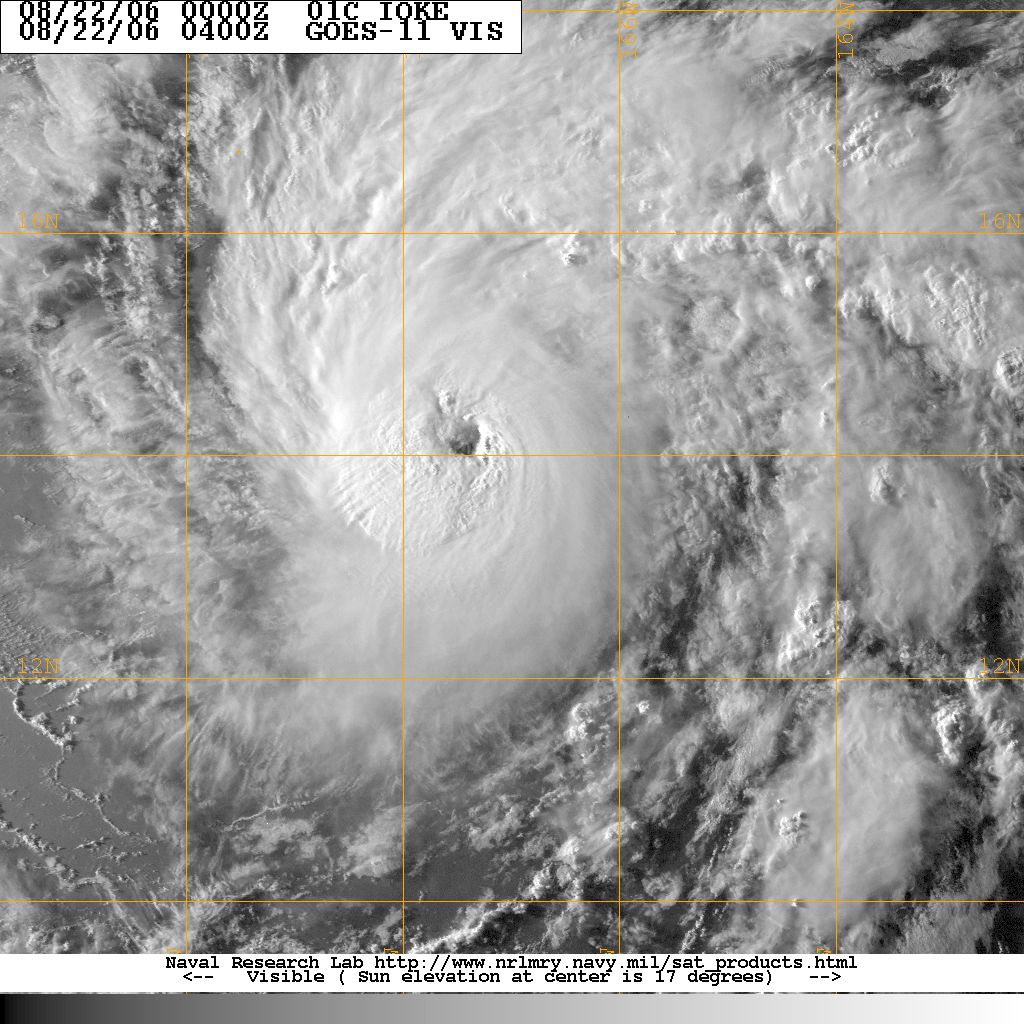 The Hurricane Ioke (Pacific) at August 22nd, 2006, 0400h.